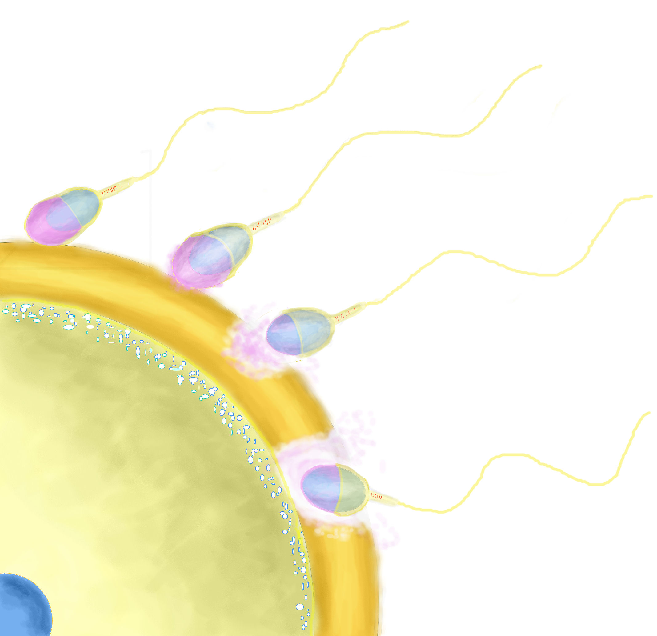 acrosomal reaction, acrosome reaction